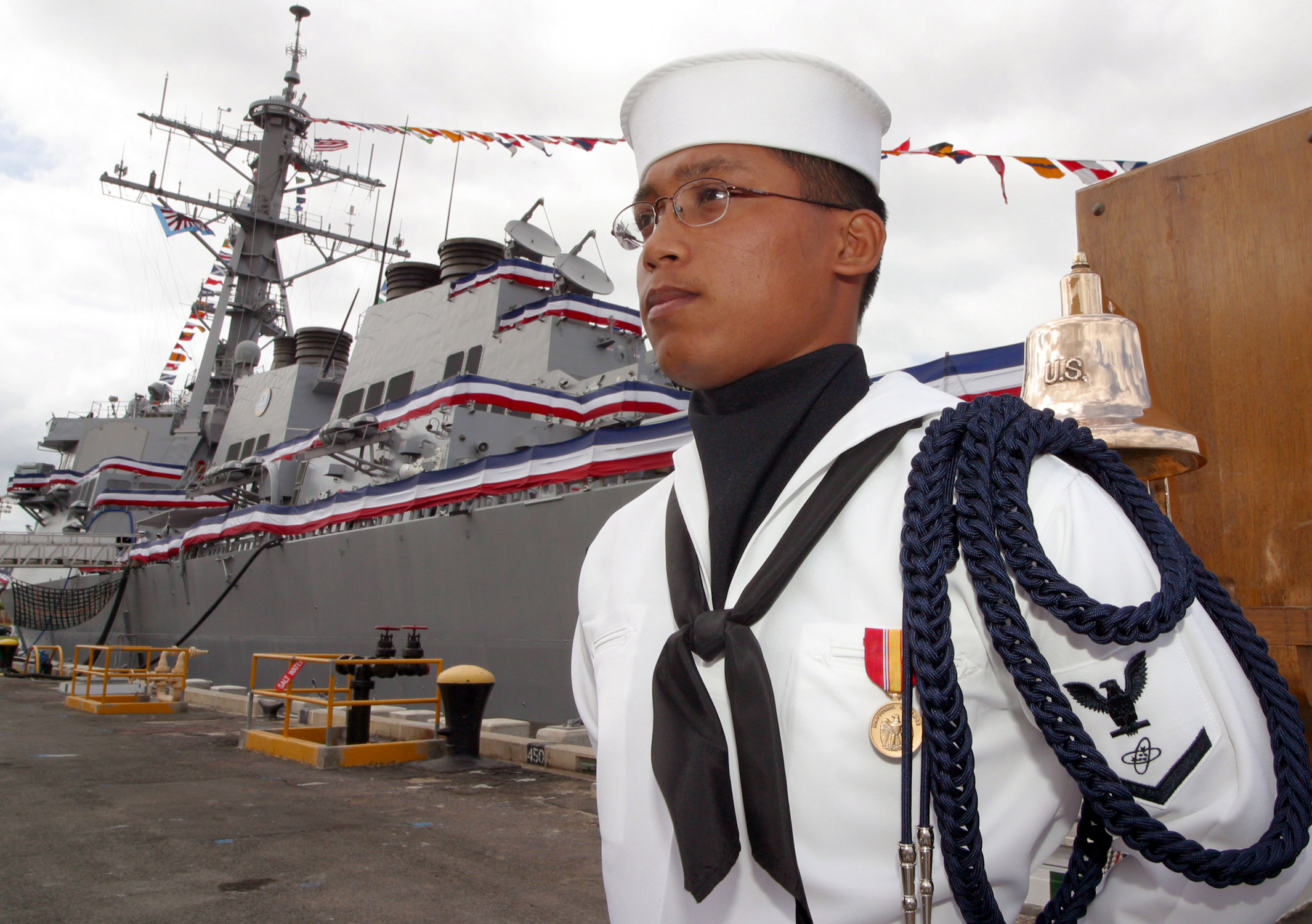 Pearl Harbor, Hawaii (Sept. 5, 2002) -- Electronics Technician 3rd Class Leon Guerrero, a network administrator aboard the guided missile destroyer USS O'Kane (DDG 77), greets guests at his ship's change of command ceremony. Cmdr. Michael S. Viland became O'Kane's third commanding officer, relieving Cmdr. Taylor W. Skardon. O'Kane was commissioned Oct. 23, 1999 and took her place in the fleet as the 26th Arleigh Burke-class destroyer. U.S. Navy photo by Photographer's Mate 1st Class William R. Goodwin. (RELEASED)